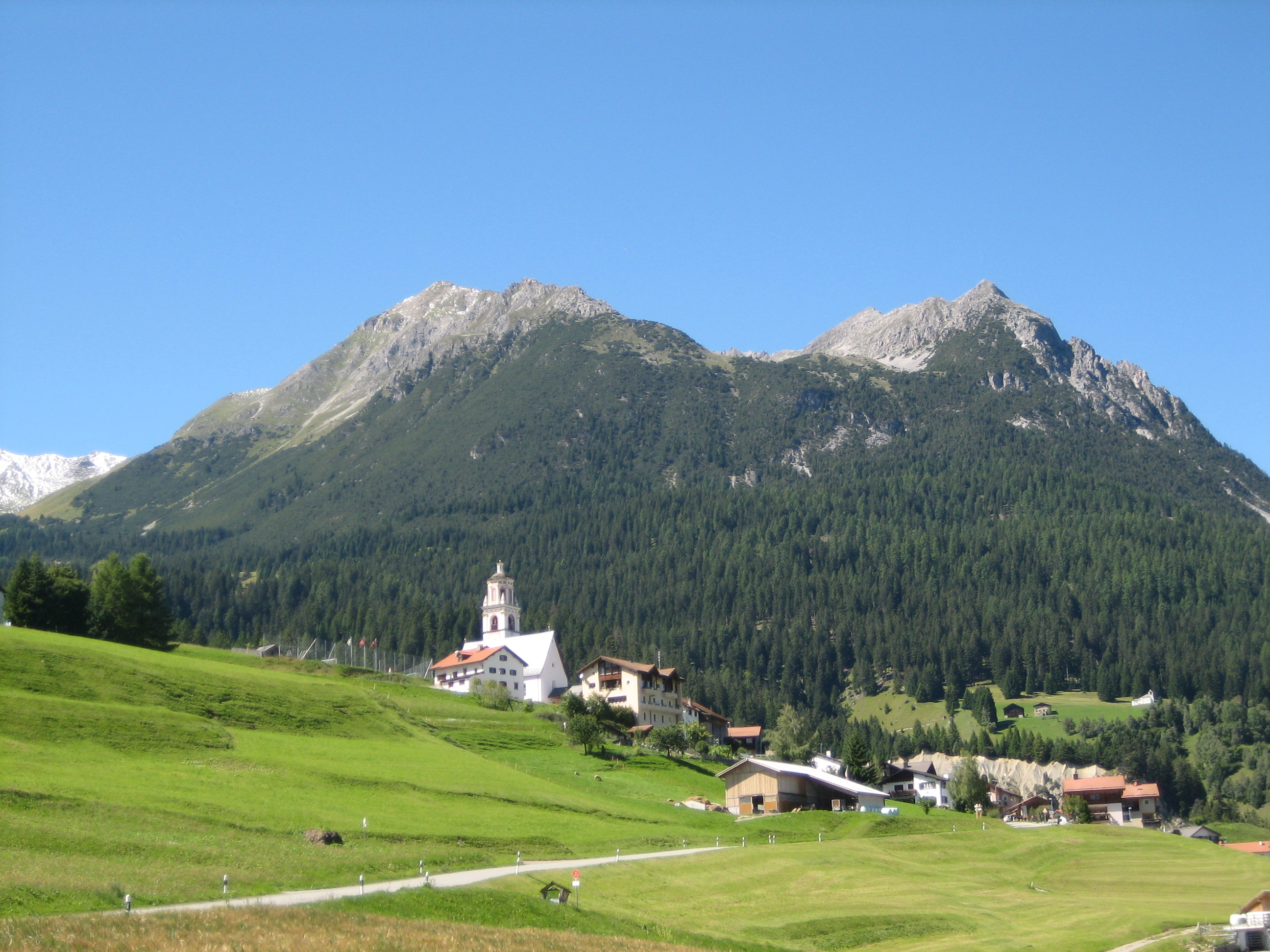 Piz Toissa with Parsonz, Riom-Parsonz, Salouf, Grison, Switzerland